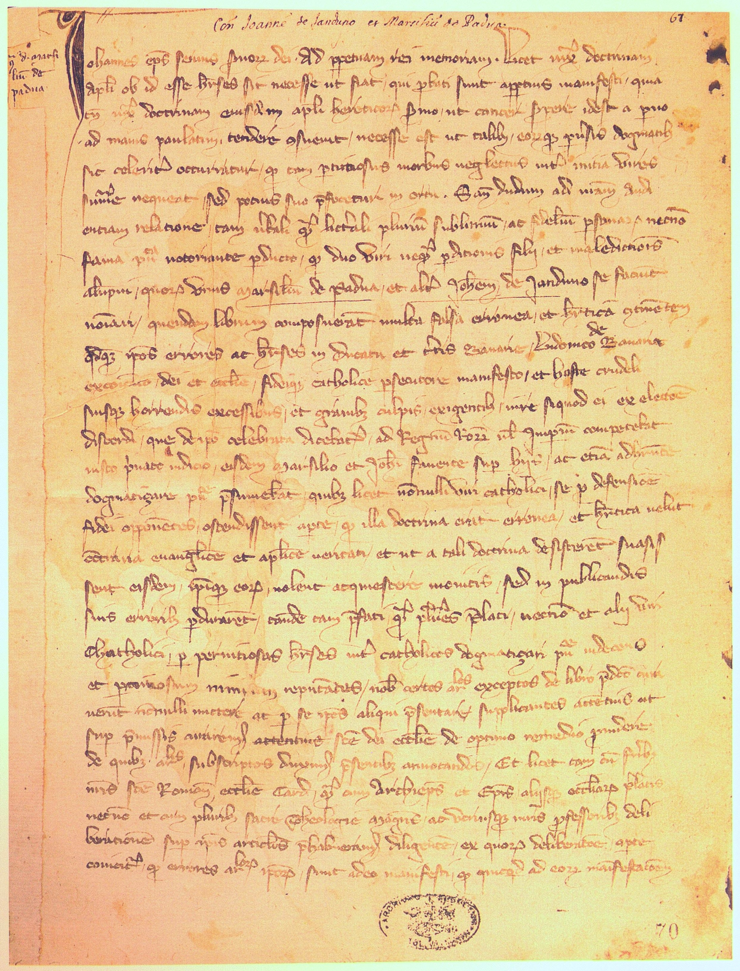 The condemnation of five theses of Marsilius of Padua’s Defensor pacis in a papal bull issued at Avignon. Vatican City, Archivio Segreto Vaticano, Armadio XXXI, 42, fol. 70r.